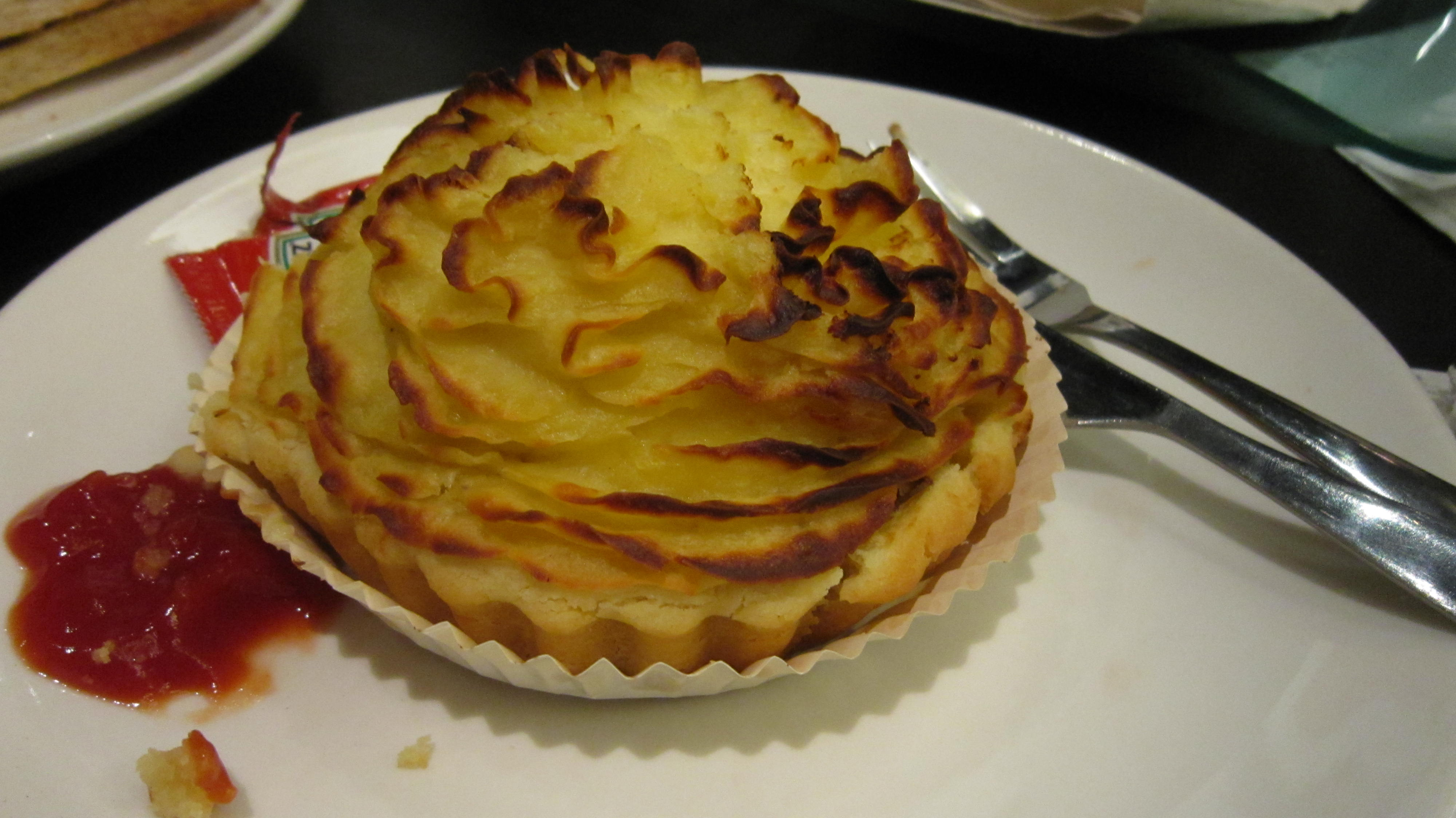 Mushroom with Mashed Potatoes Pie